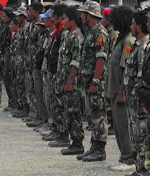 FALINTIL veterans in East Timor. USAID caption: 'Caption: The former combatants from Timor-Leste’s struggle for independence are working for action and recognition as they help draft the Veteran’s law'